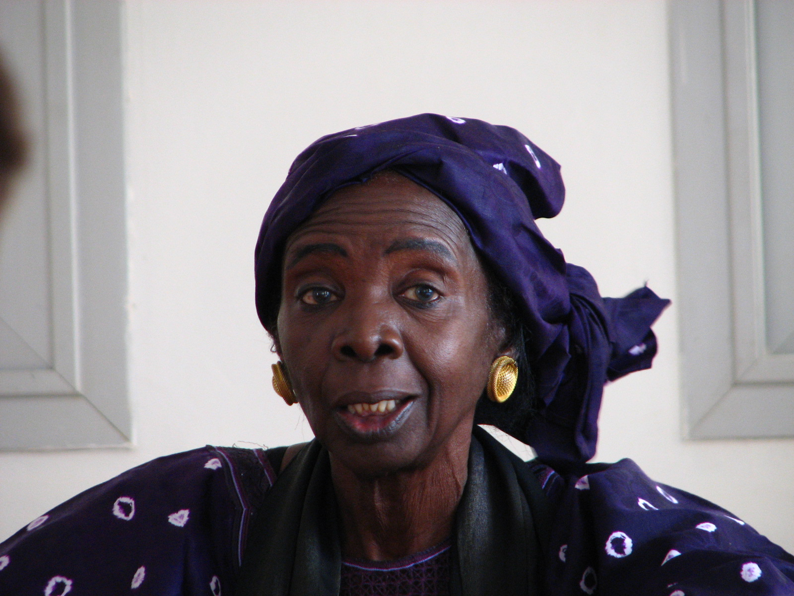 Senegalese writer Aminata Sow Fall.